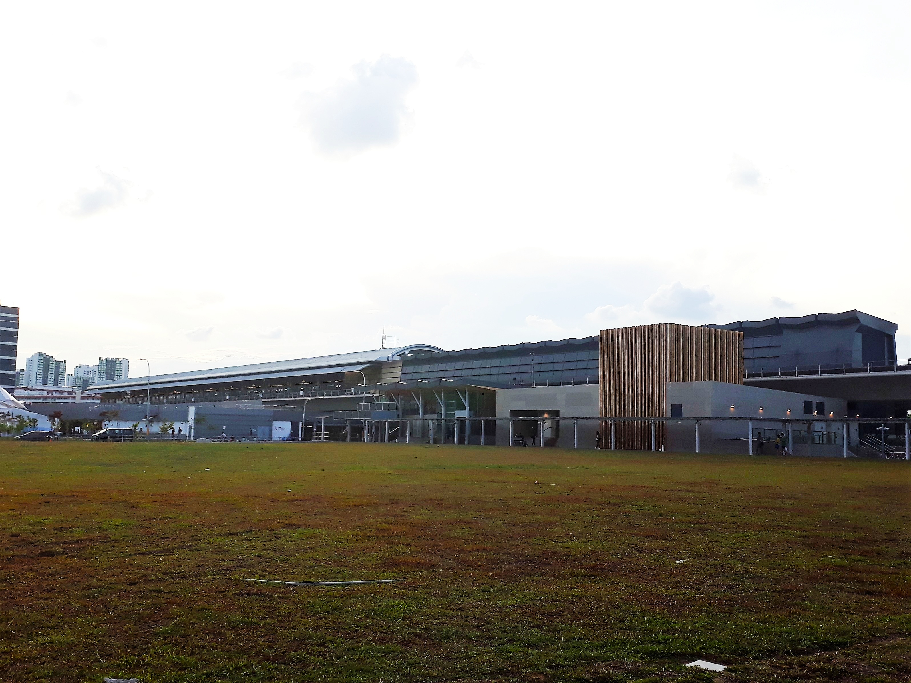 The exterior of Woodlands MRT Station